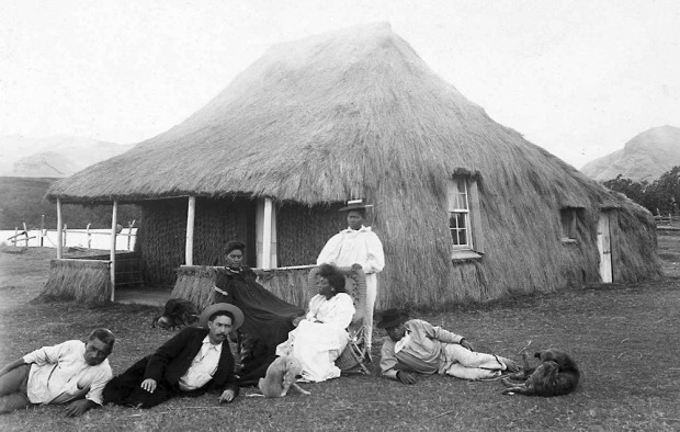 The property of Alii Kekaihaakulou (Deborah Kapule). After Kaumualii's death, Kapule lived on land near the Wailua River. She was well known for her hospitality.